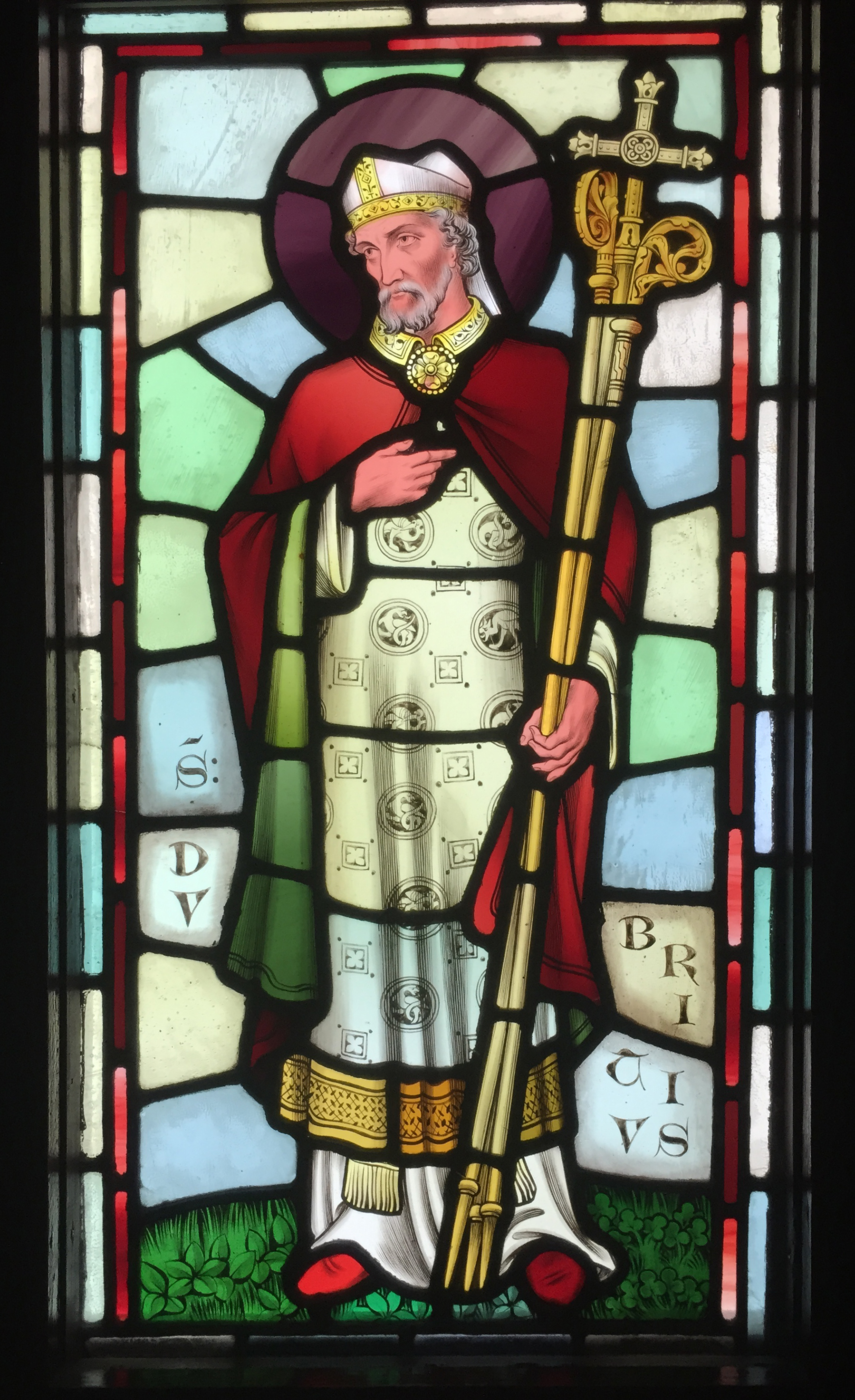 Stained glass chapel panel, originally designed by William Burges (2 December 1827 – 20 April 1881)